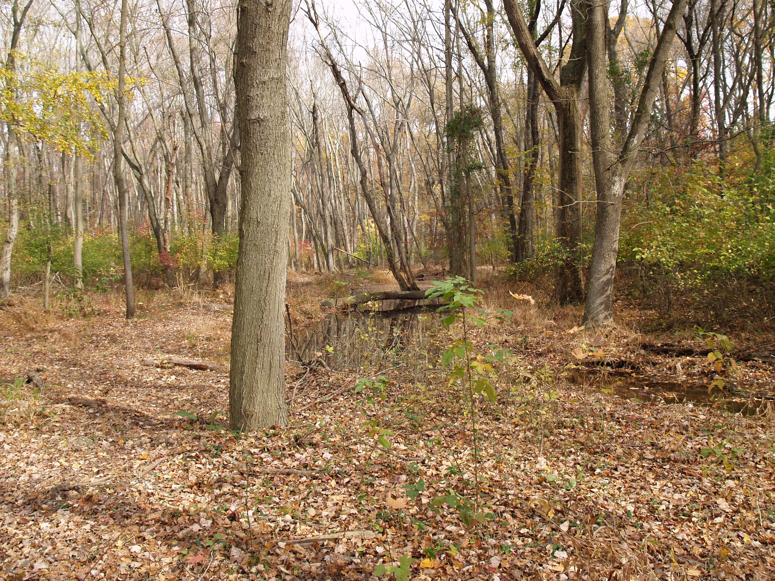 This is a picture of Sandom Branch, a tributary to Blackbird Creek in Delaware, and its floodplain in 2008.